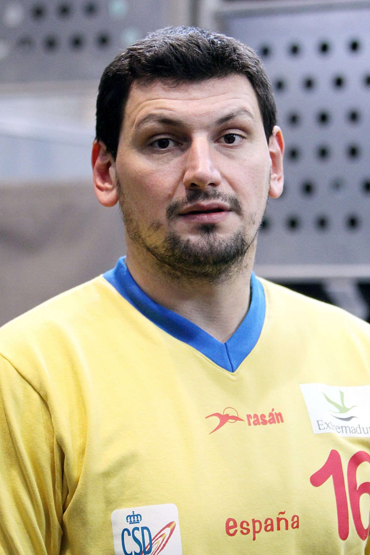 Arpad Šterbik (BM Ciudad Real), Spain national handball team